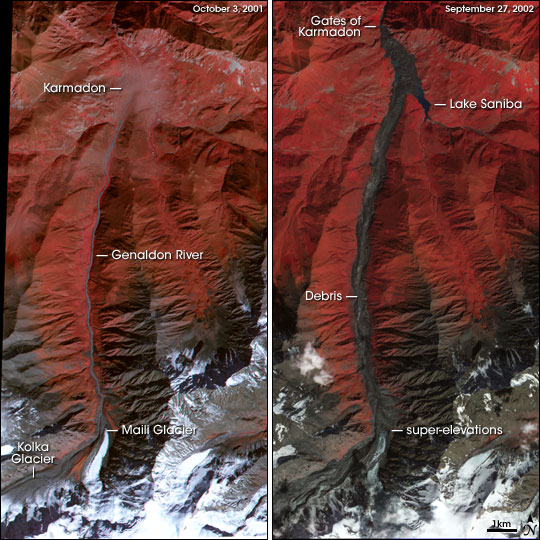 Pair of satellite images, taken before and after the Kolka-Karmadon ice rock slide.